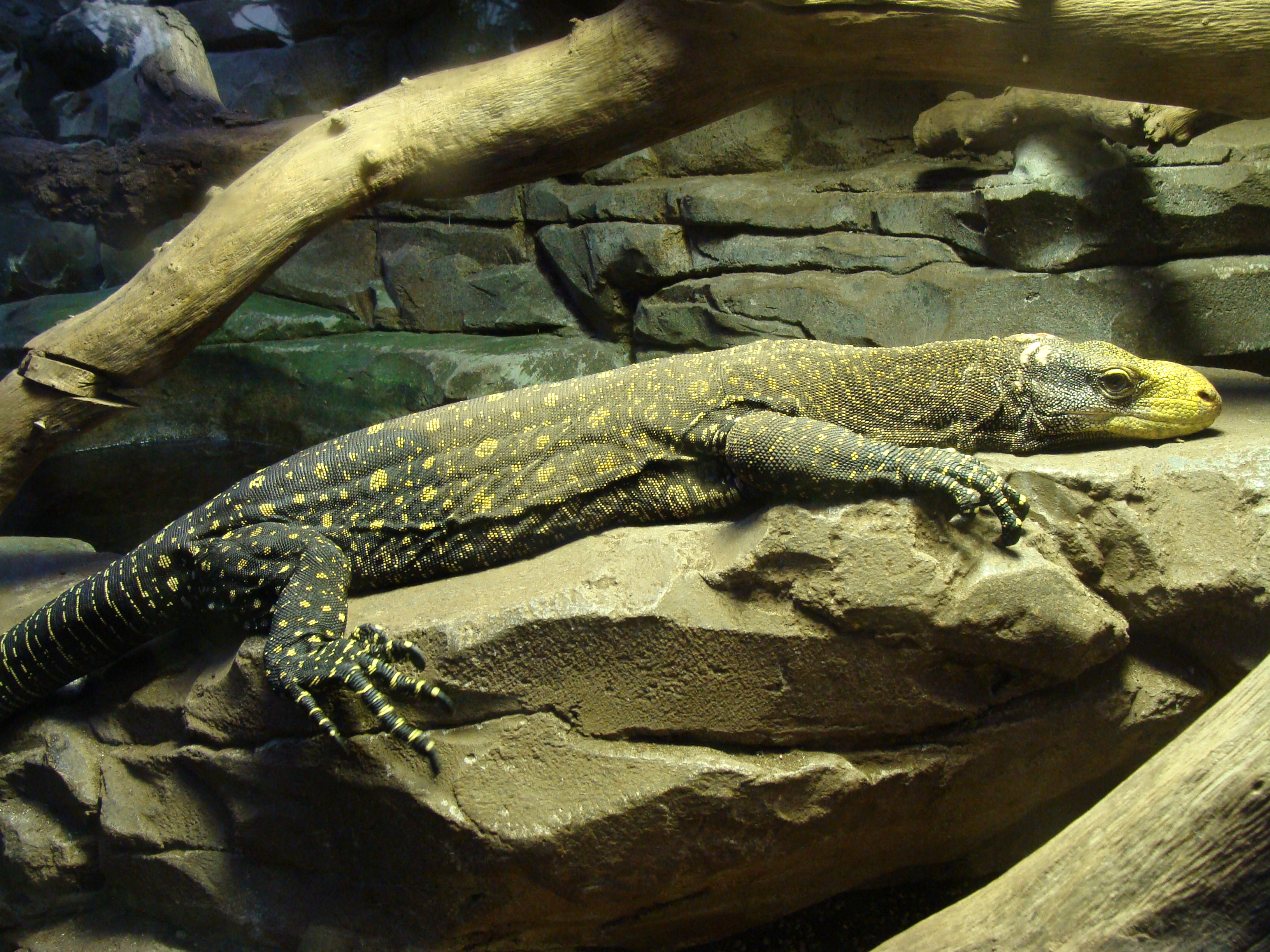 Varanus salvadorii in the Zoo de Madrid, Spain.